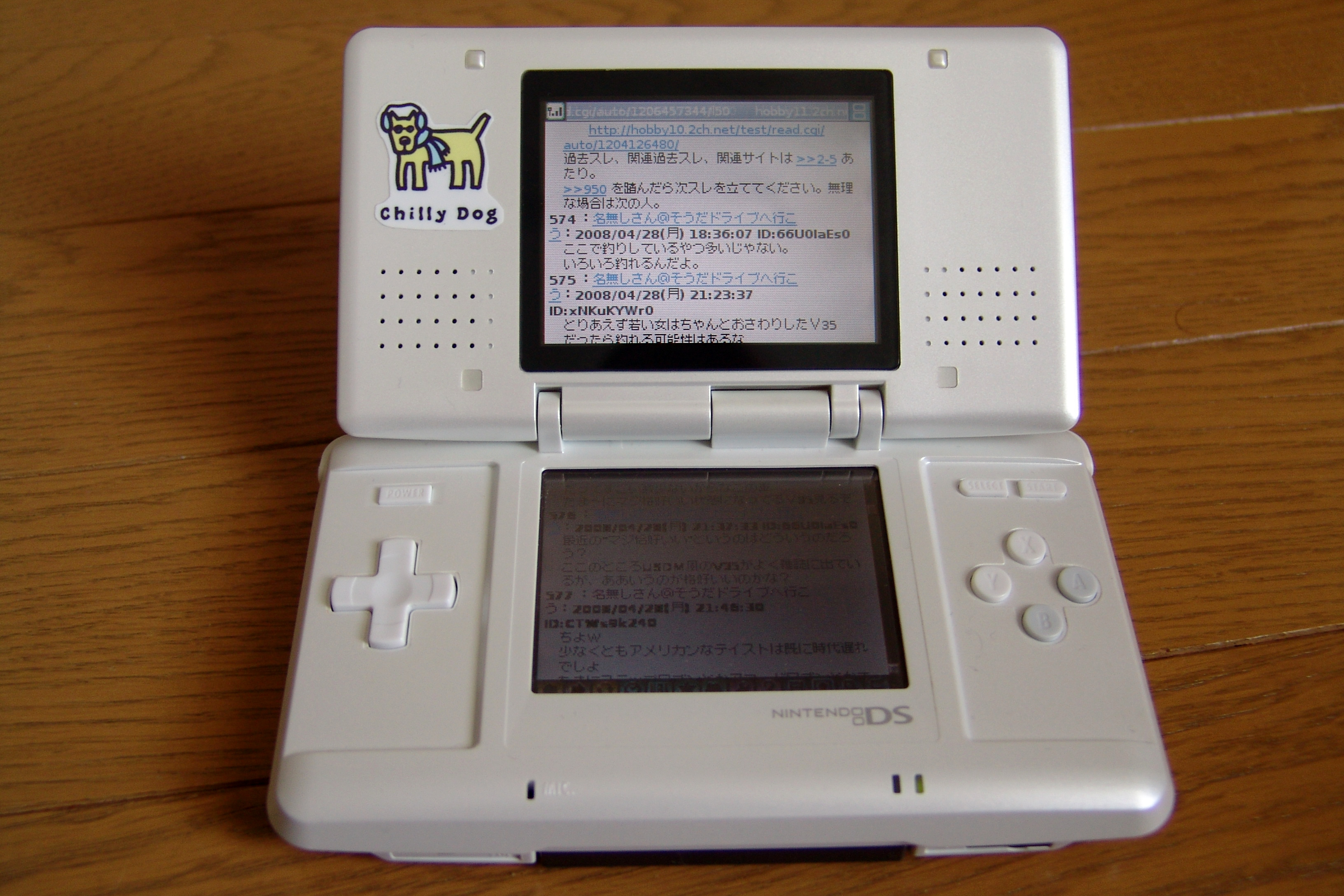 これでもOpera8.5なんだぜ。 Nintendo DS Browser. ¥3,800(JPY). Nintendo DS & DSi Browser V35スカイライン語るPart25 574 2008/04/28(月)